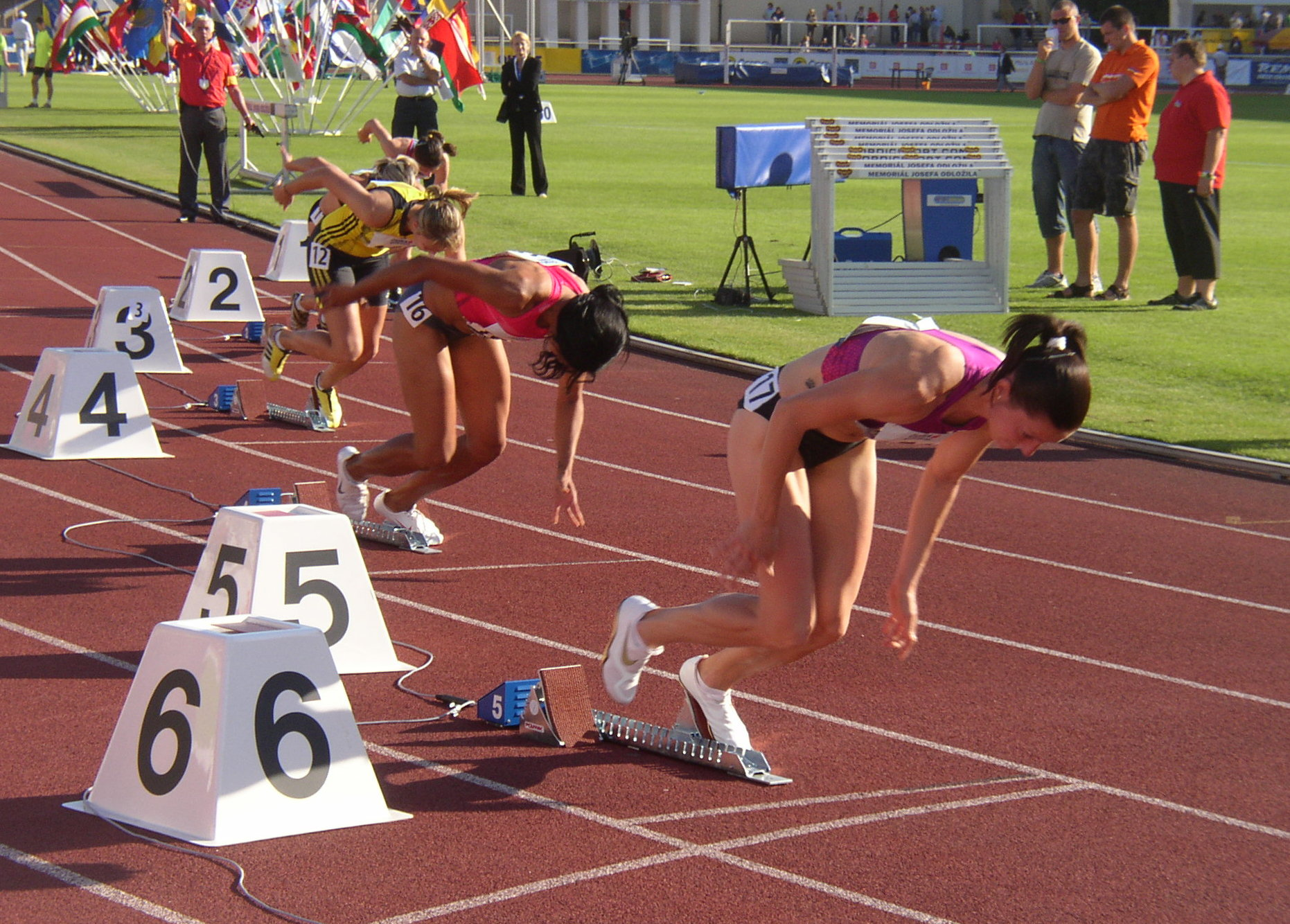 Athletes leaving starting blocks for women's 200 m run at 17th edition of the Josef Odložil Memorial (EAA Premium Meeting, Na Julisce Stadium, Prague, Czech Republic, 14 June 2010). (270) Lenka Kršáková (SVK) (272) Lucie Škrobáková (CZE) (168) Isabel Le Roux (RSA) (169) Carol Rodríguez (PUR) (171) Denisa Rosolová (CZE)